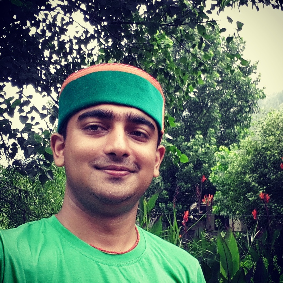 Image of a boy wearing Himachali cap